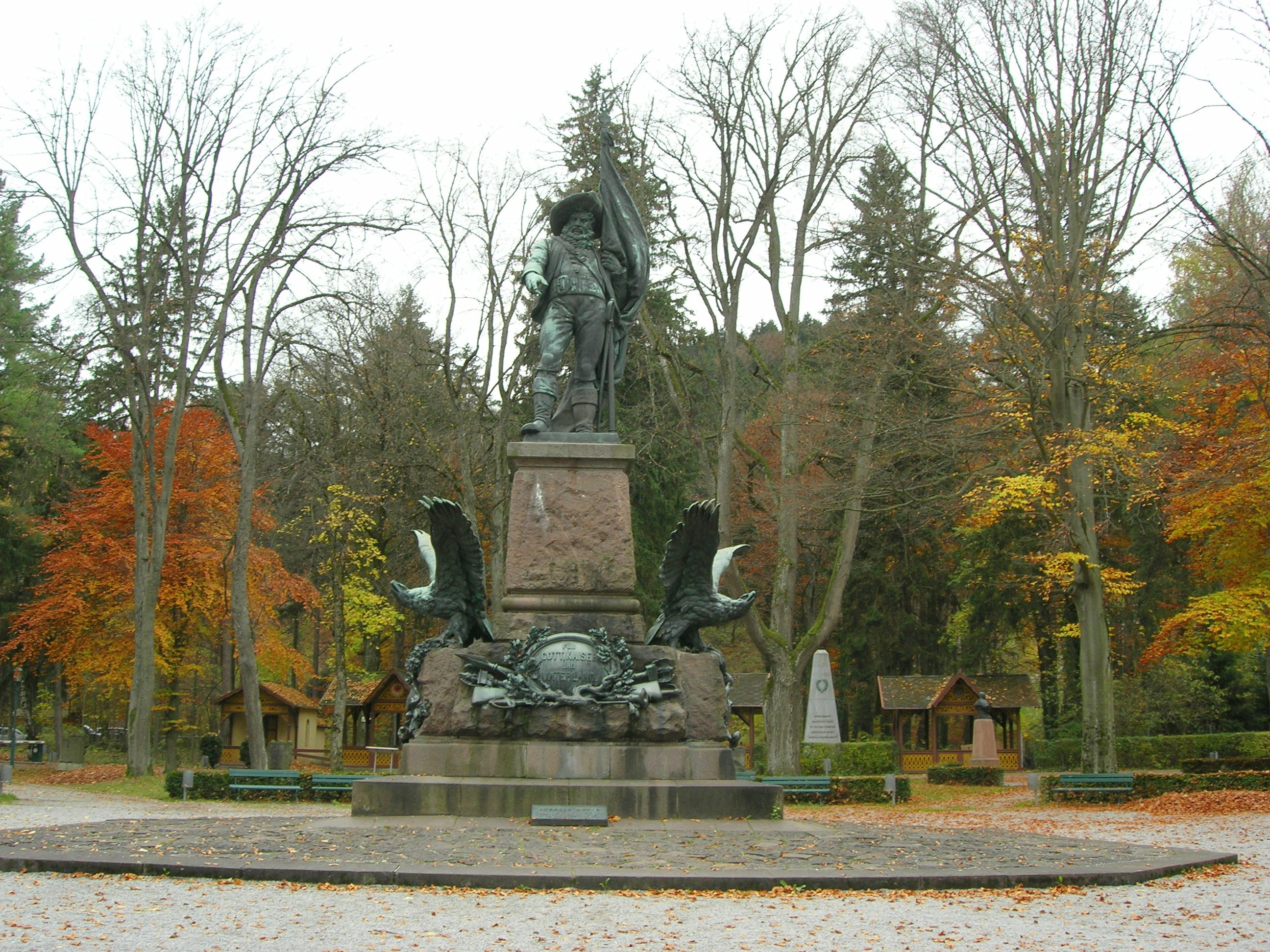 Statue of Andreas Hofer von Heinrich Natter on Bergisel in Innsbruck (Austria)